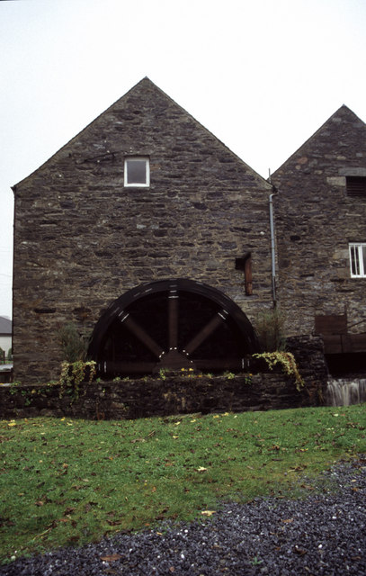 Blair Atholl Mill Working mill with tea room.